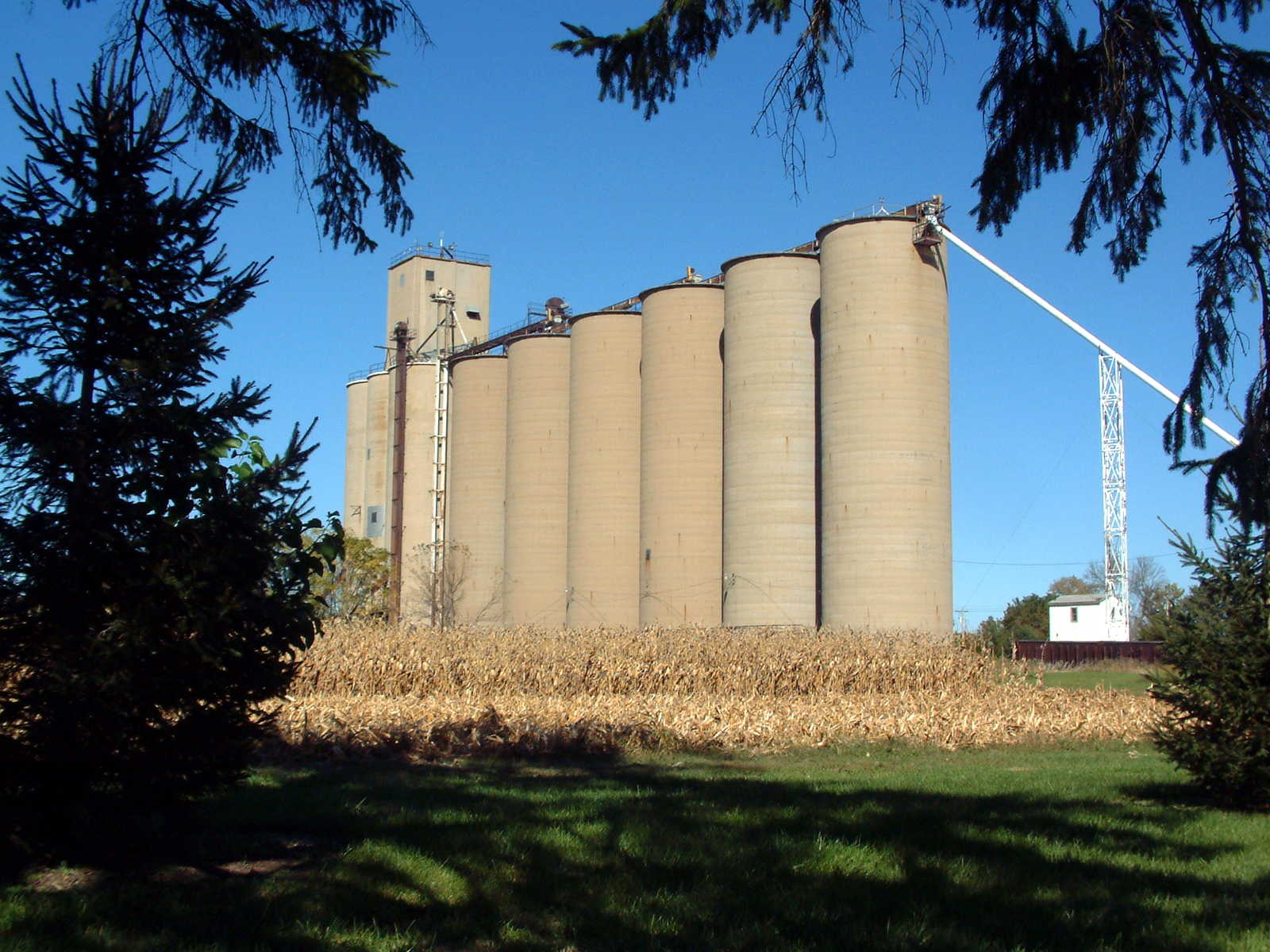 Looking northeast toward the grain elevators in the town of Tab, Indiana.